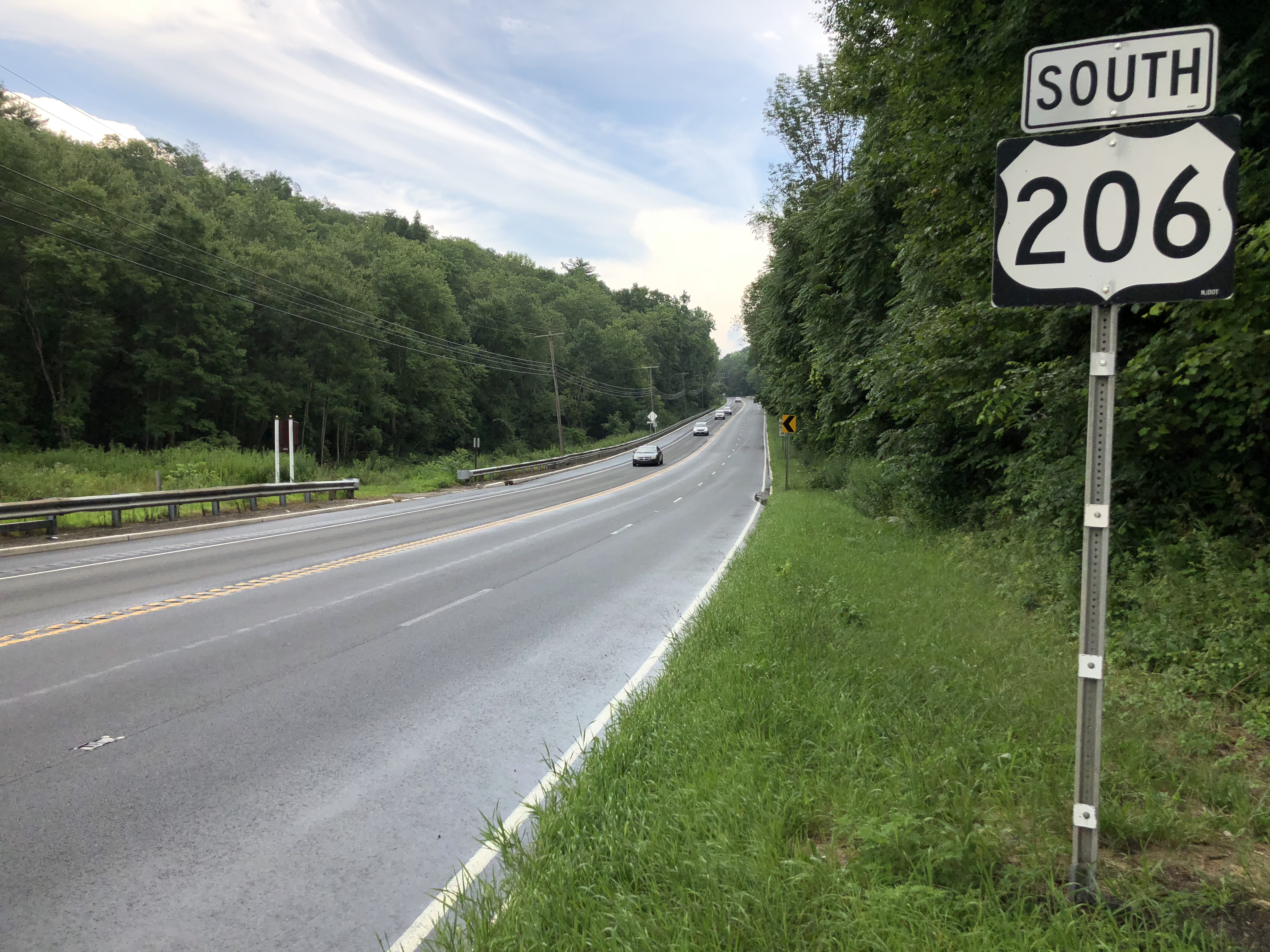 View south along U.S. Route 206 (Main Street) just south of the Morris and Sussex Turnpike in Andover, Sussex County, New Jersey